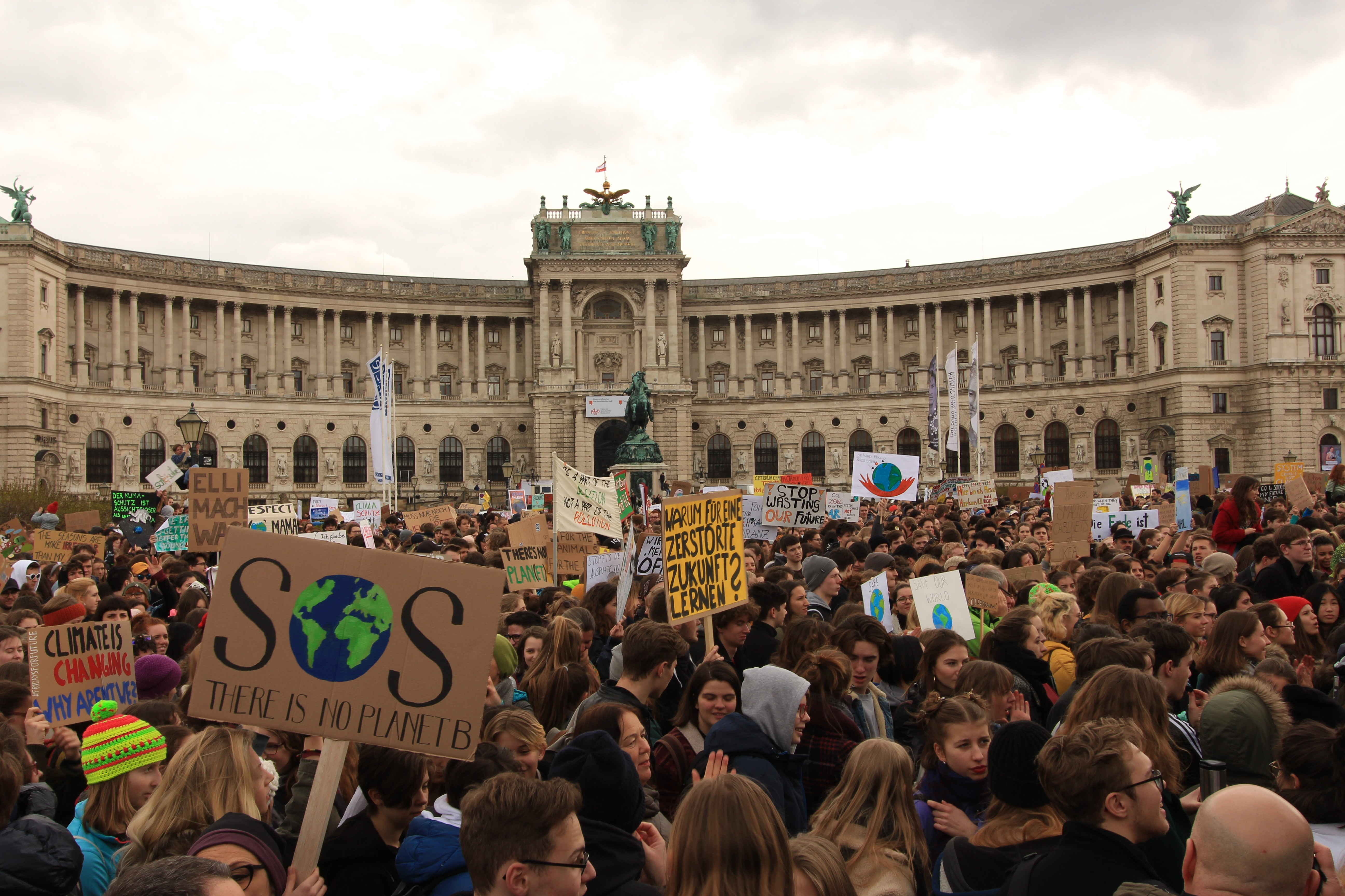 The school strike for climate (FridaysForFuture) on Heldenplatz in Vienna (Austria) on March 15 2019.